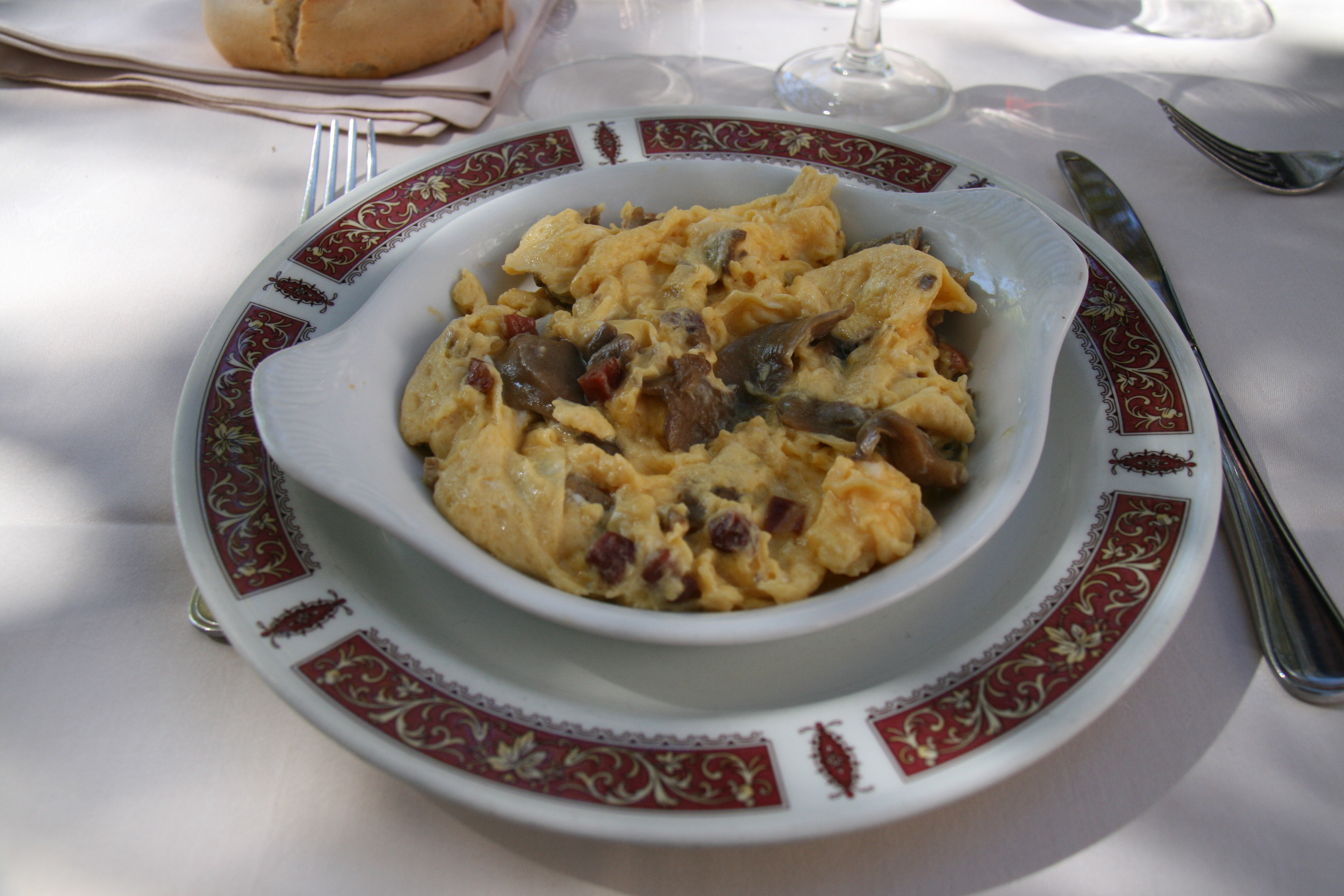 Scrambled eggs with mushrooms